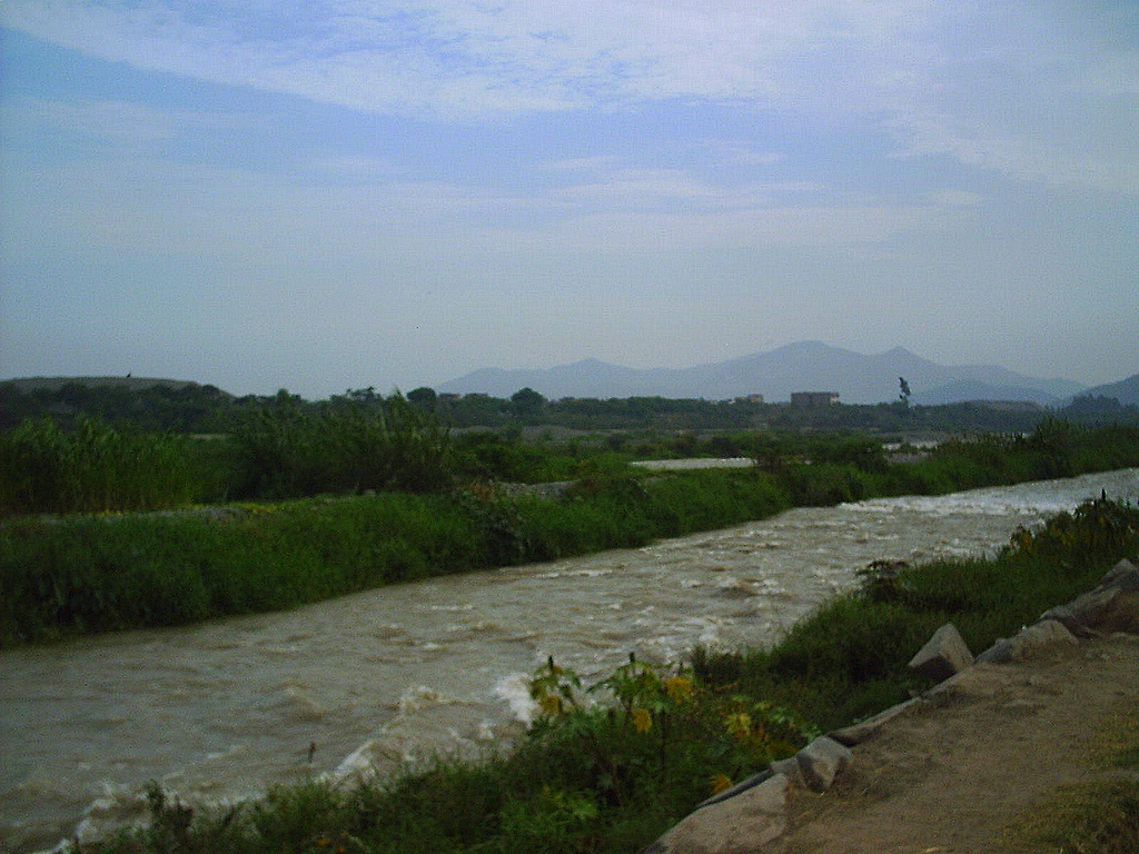 This picture was taken by me on april 09, 2006 with a Vivitar camera